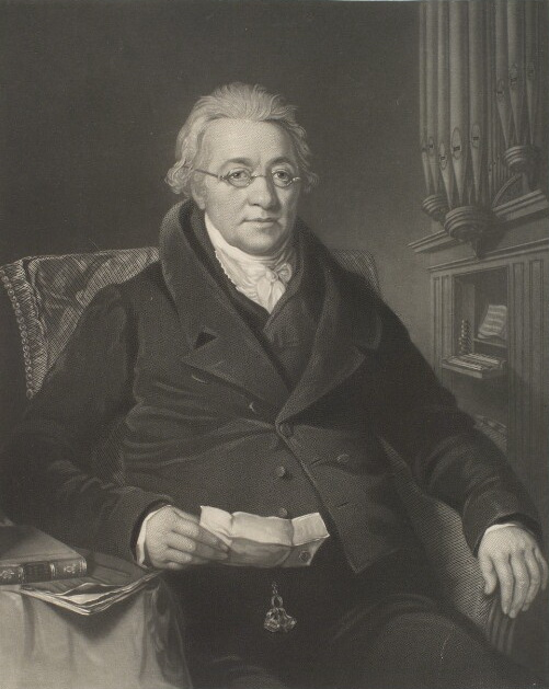 Crop of Christian Ignatius Latrobe